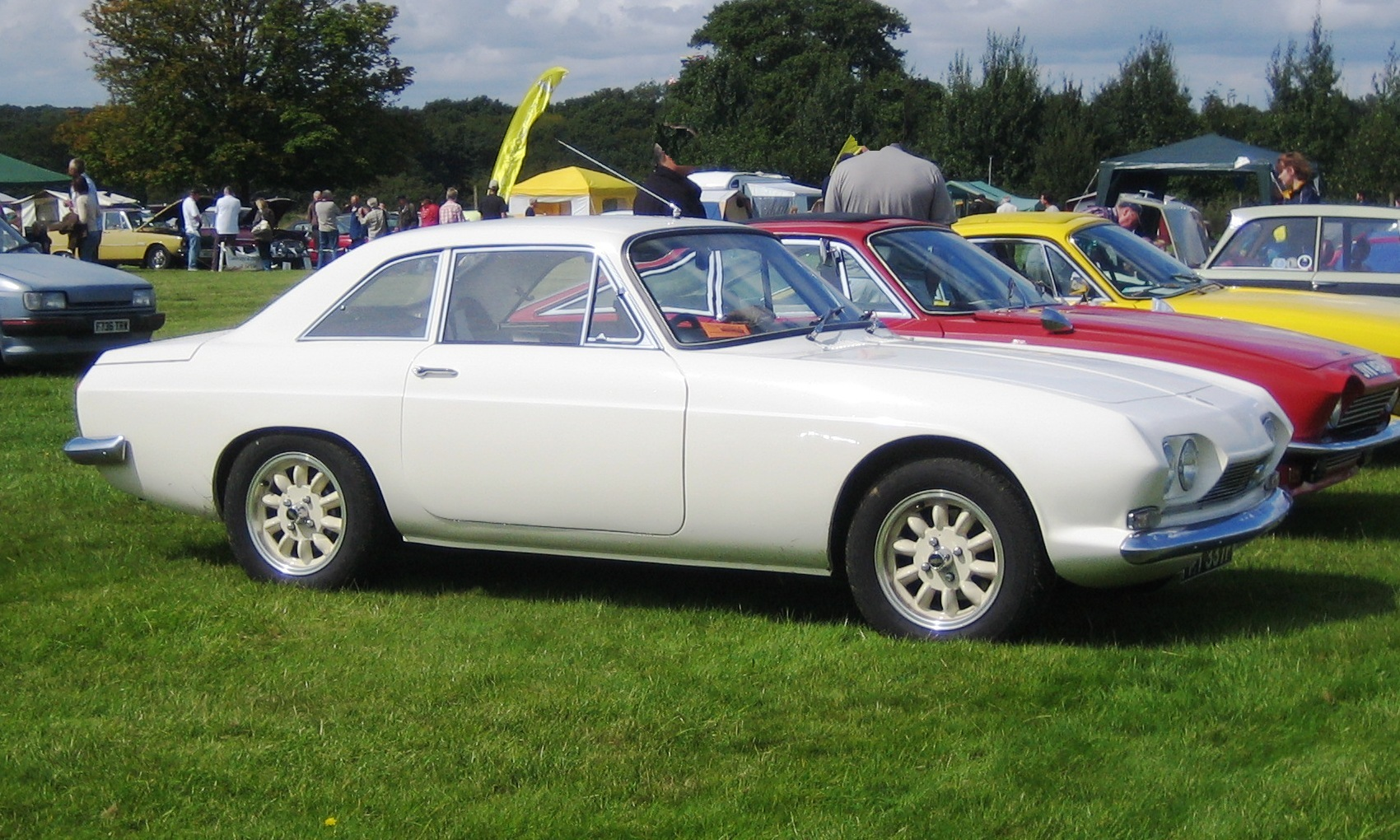 Reliant Scimitar at a Classic Car Show in Hertfordshire. The red car behind it is a Bond 2-litre.